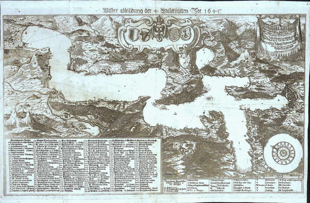 Map of the Waldstätten, Switzerland. It depicts the four socalled Waldstätten (Forest Cities/Cantons) Uri, Schwyz, Unterwalden and Lucerne.